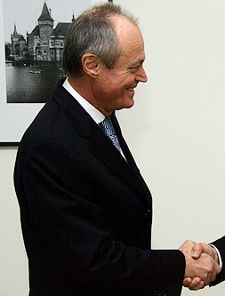 Péter Medgyessy, former Prime Minister of Hungary